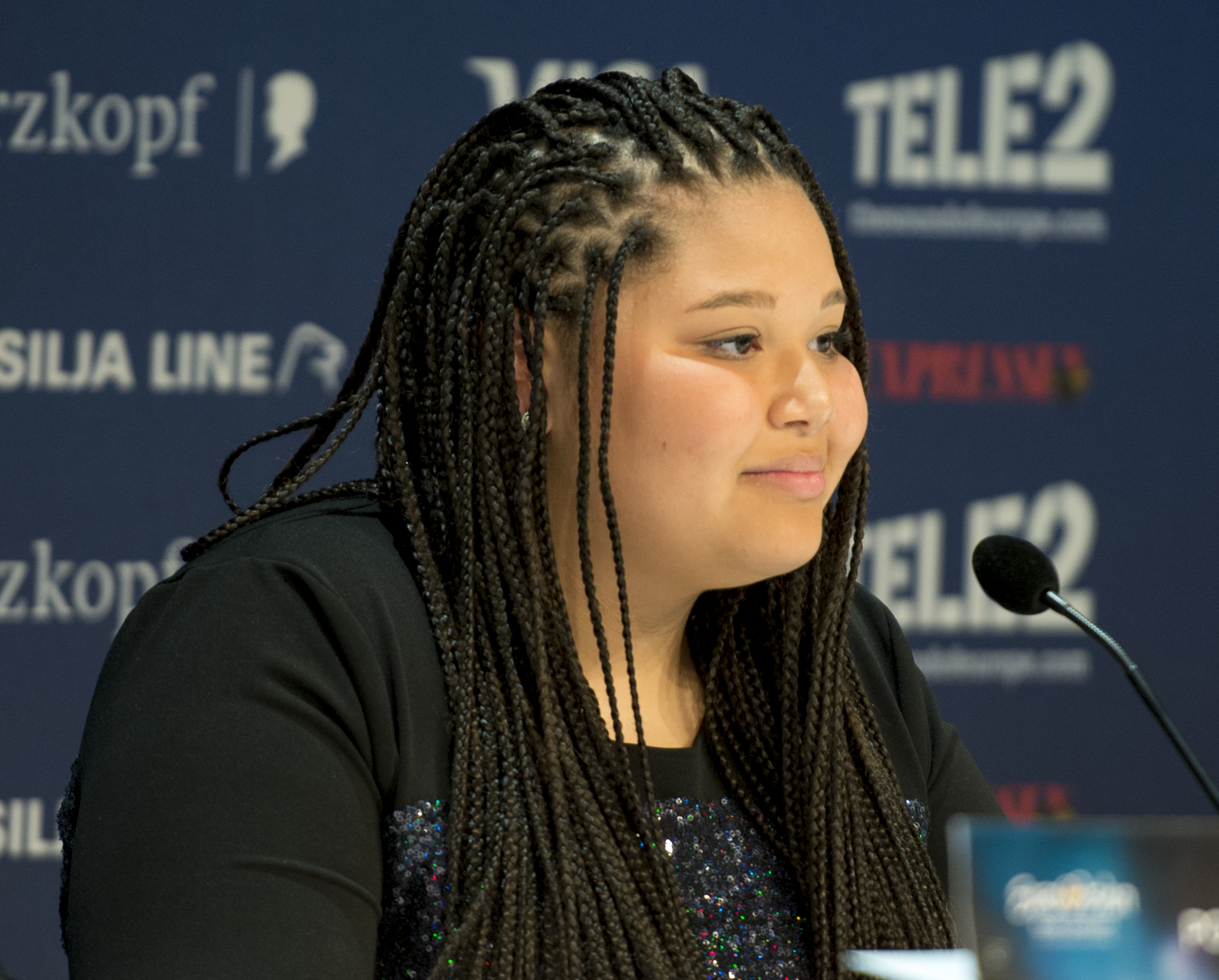 Destiny Chukunyere during the Eurovision Song Contest 2016 in Stockholm. (Help translate this text)